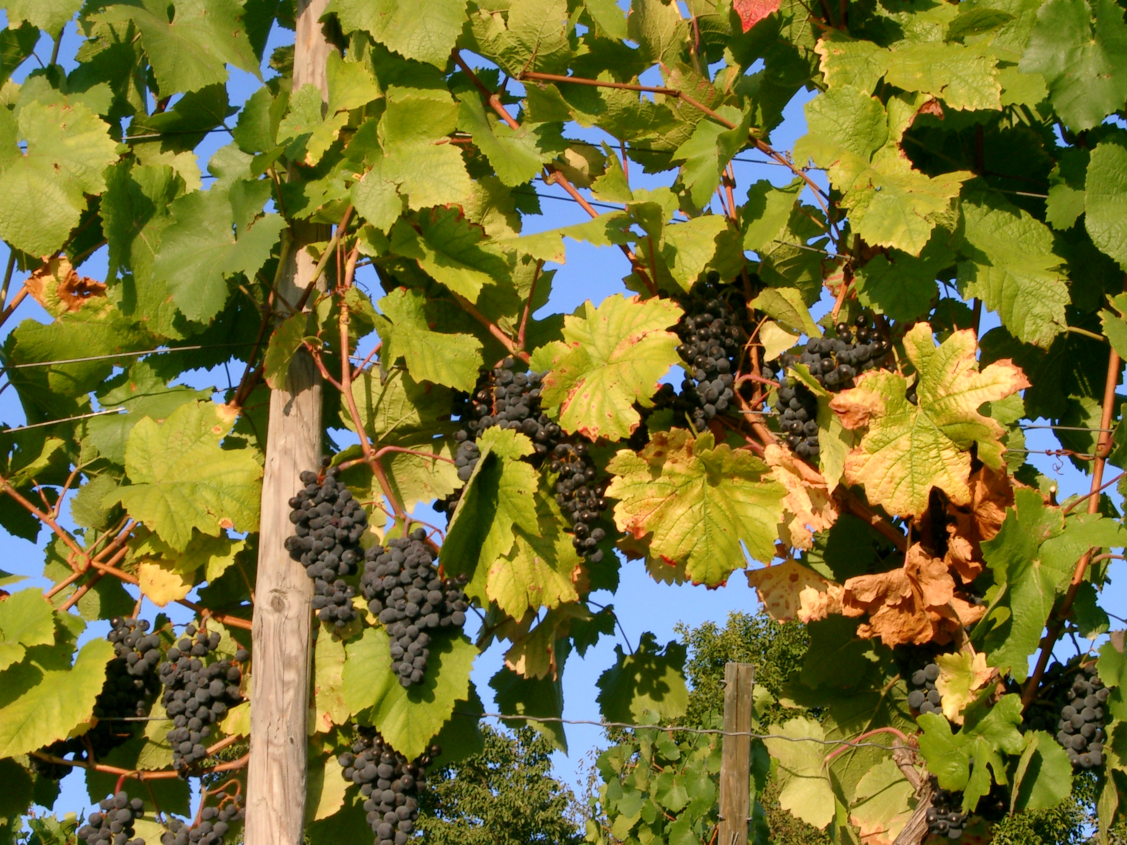 grape-vine at the border of the Odenwald, Germany own photograph, 09/21/2003